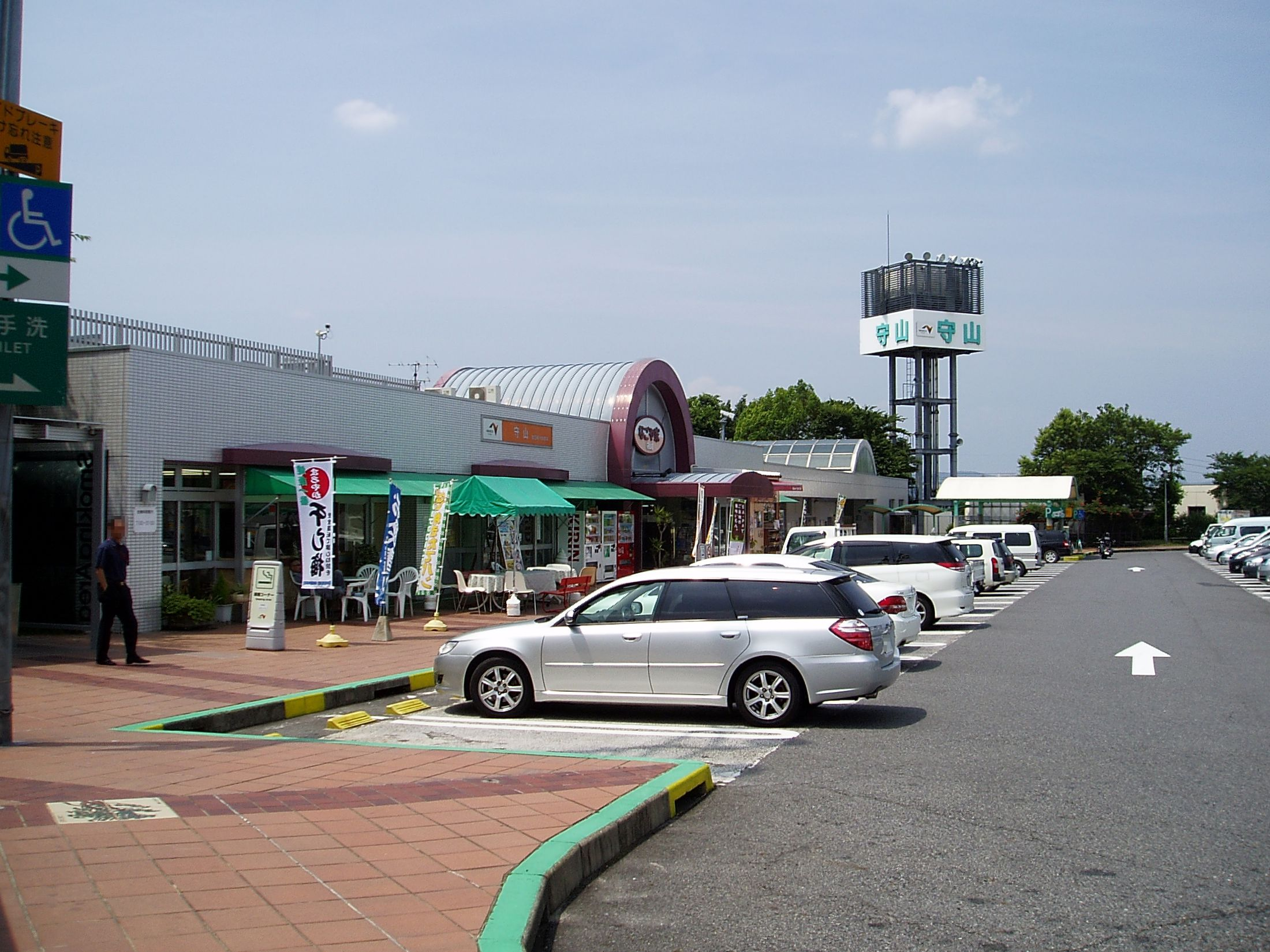 Moriyama Parking Area